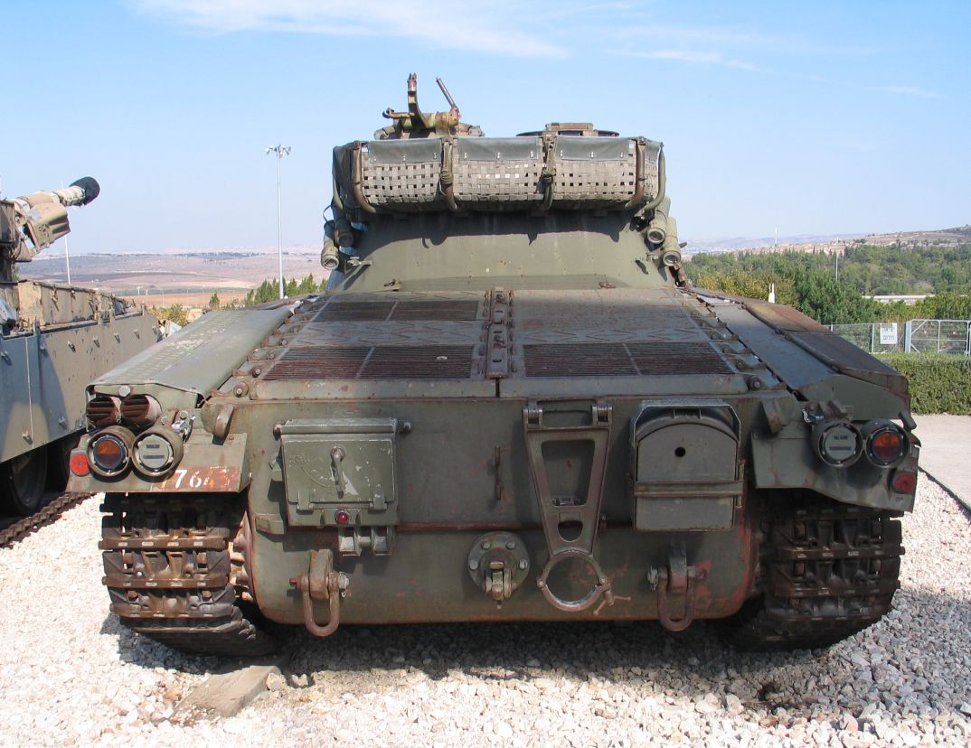 Description: Swiss Panzer 61 MBT in Yad la-Shiryon Museum, Israel. Source: Photo by me, User:Bukvoed.